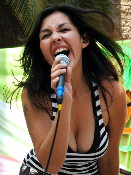 Chilean singer Denisse Malebrán (May 28, 1976) performing at DuocUC institute. Santiago de Chile.